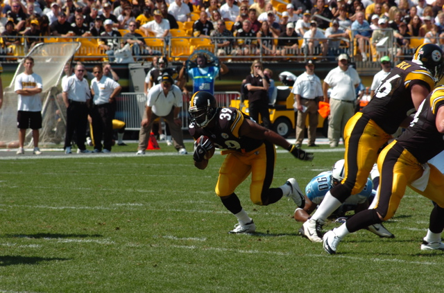 Willie Parker of the Pittsburgh Steelers running with the ball